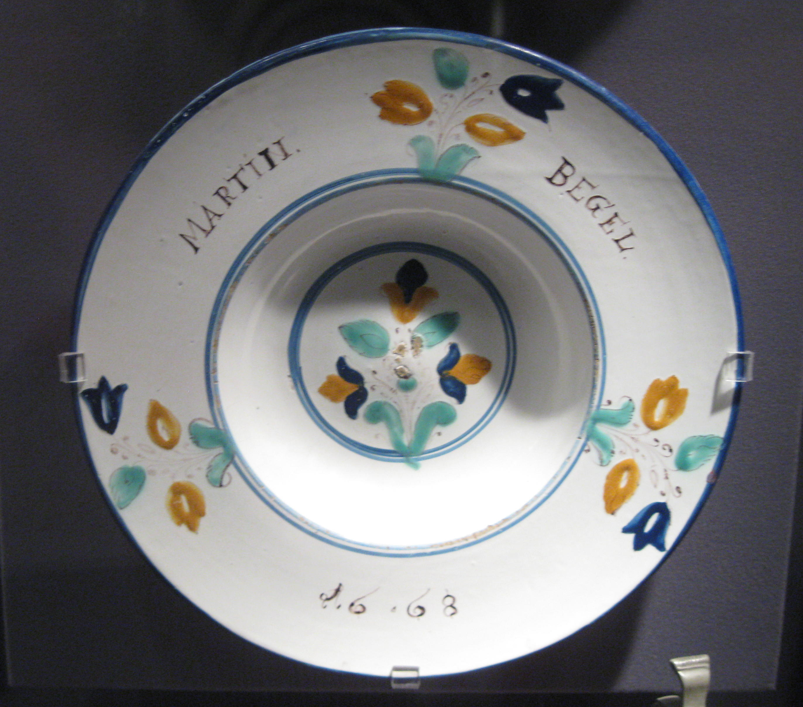 A Haban/Anabaptist dish from Slovakia which dates to 1668. This object is today located at UBC's Museum of Anthropology in Vancouver, BC, Canada, where its museum catalogue number is Ch117.